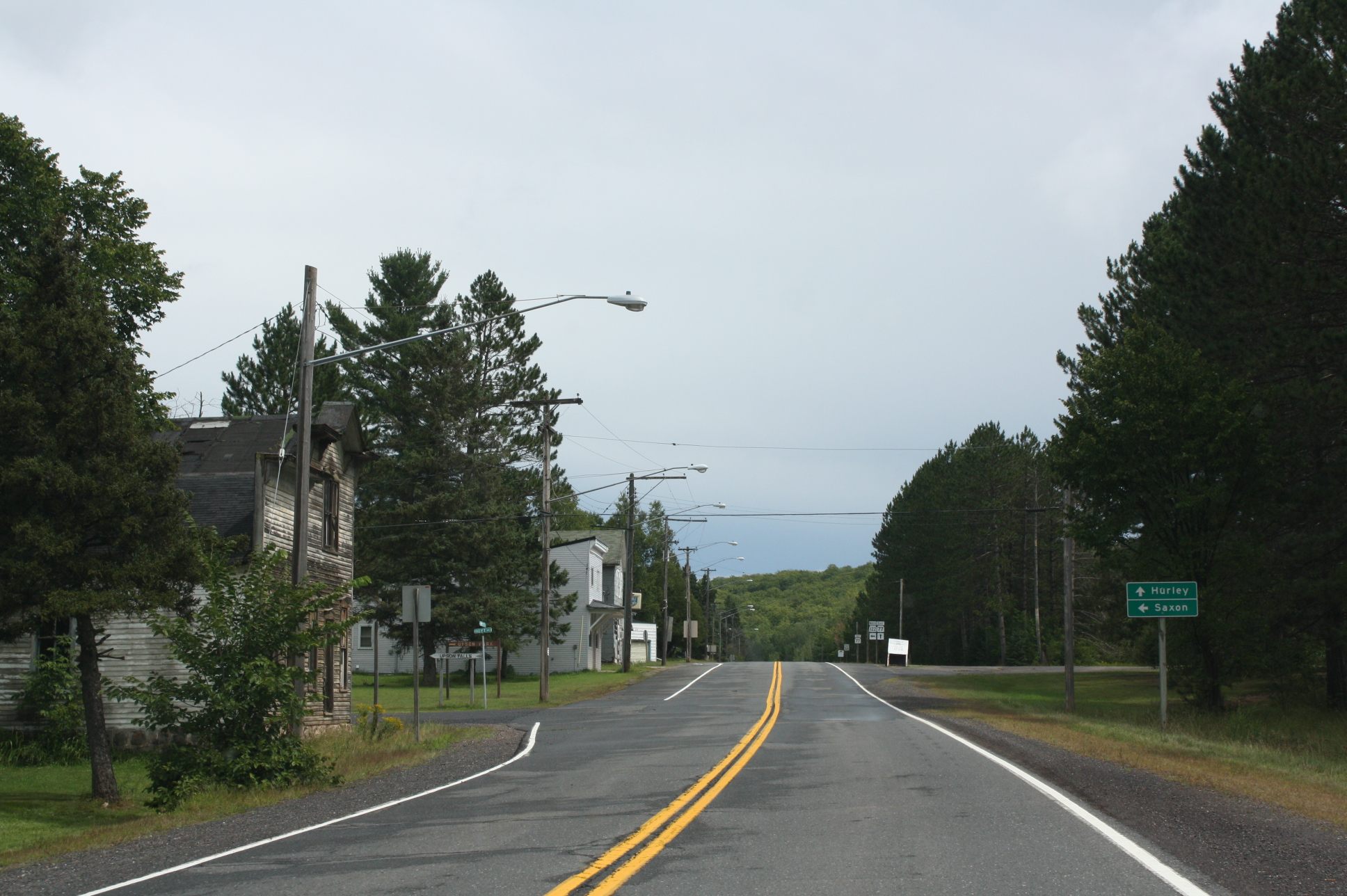 Looking east in downtown Upson, Wisconsin on Wisconsin Highway 77.